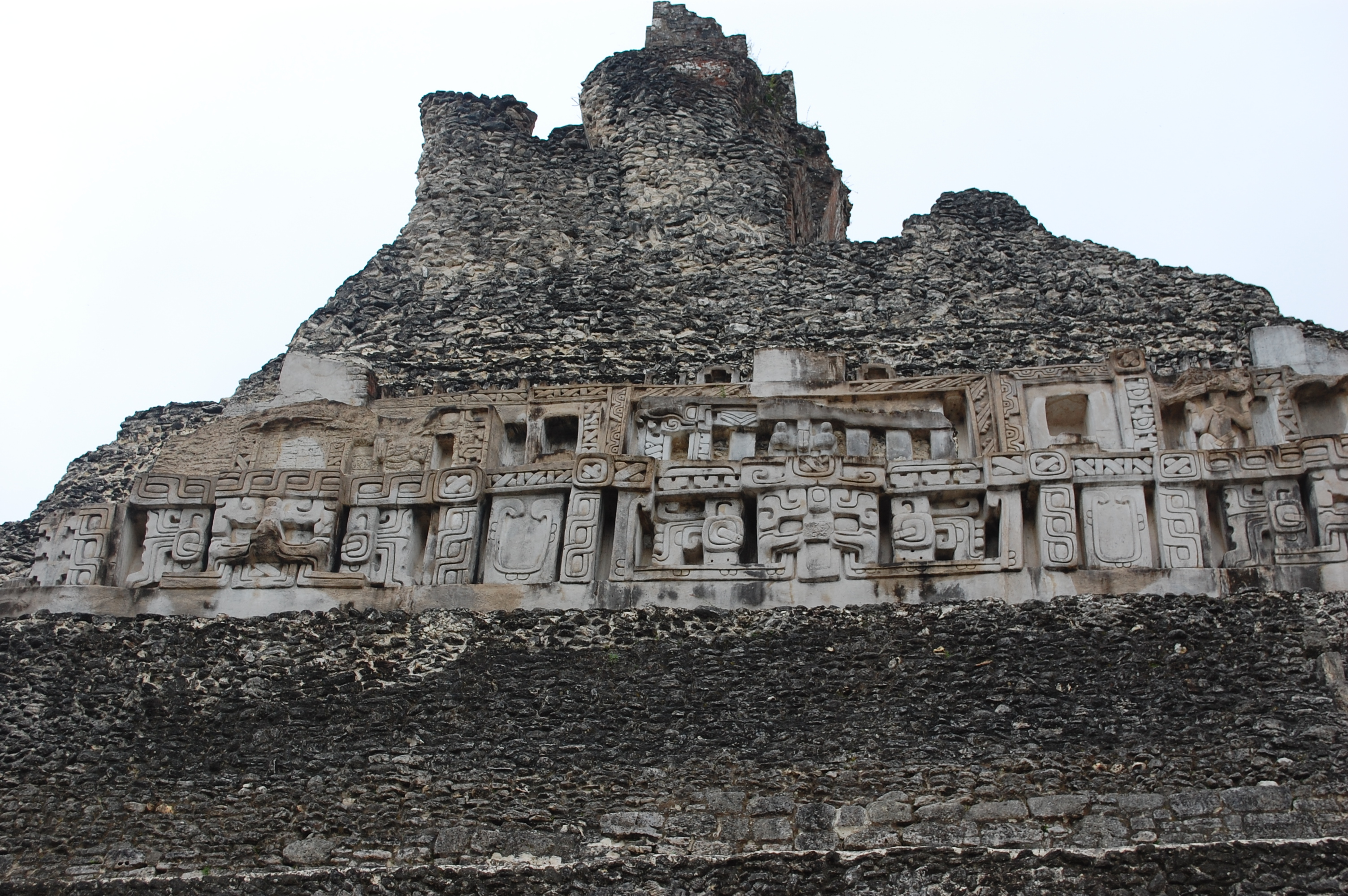 Carvings on the peak of the El Castillo pyramid at Xunantunich, Belize.